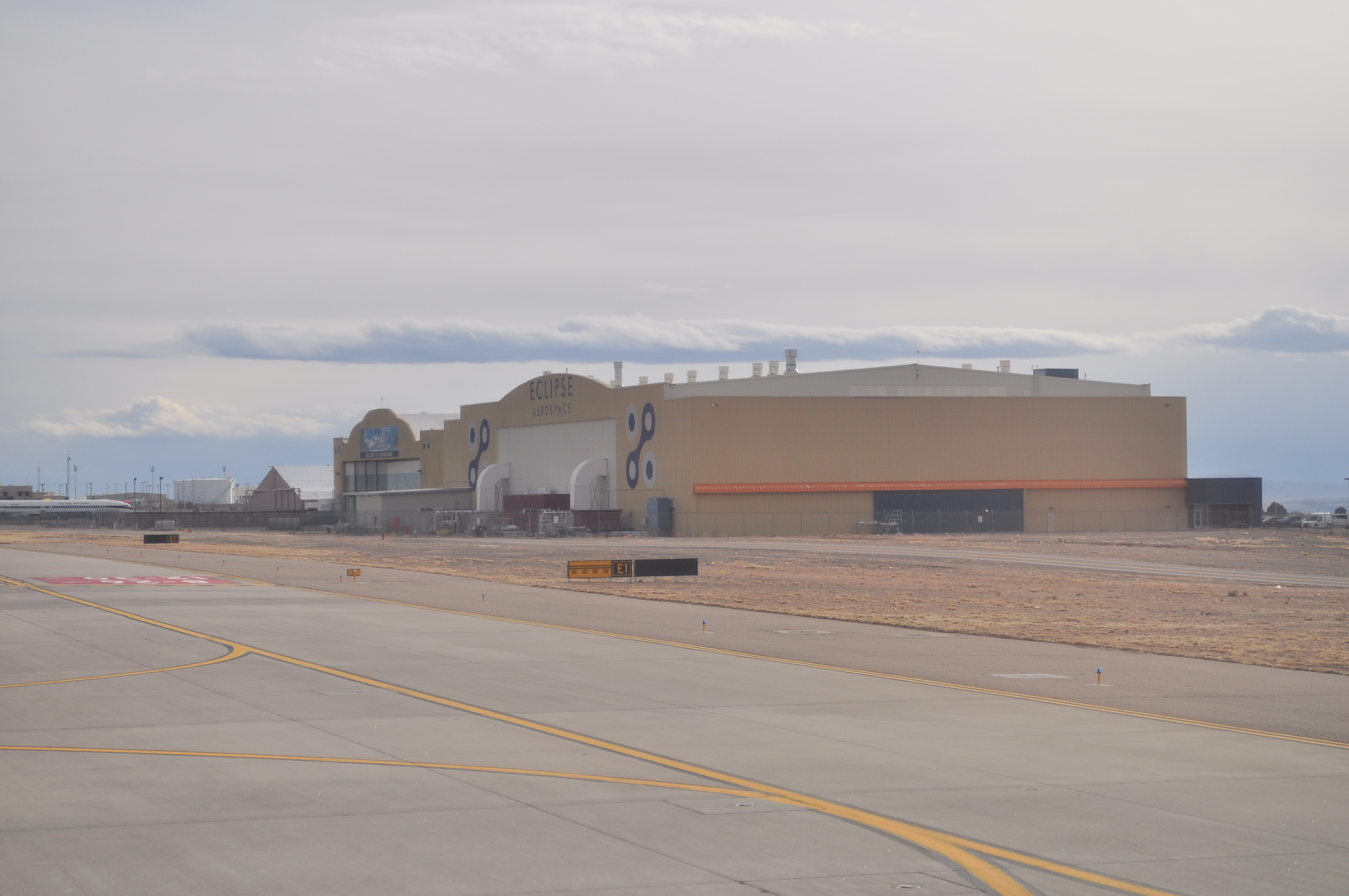 Eclipse Aviation factory adjacent to Albuquerque International Sunport, Albuquerque, New Mexico, U.S.